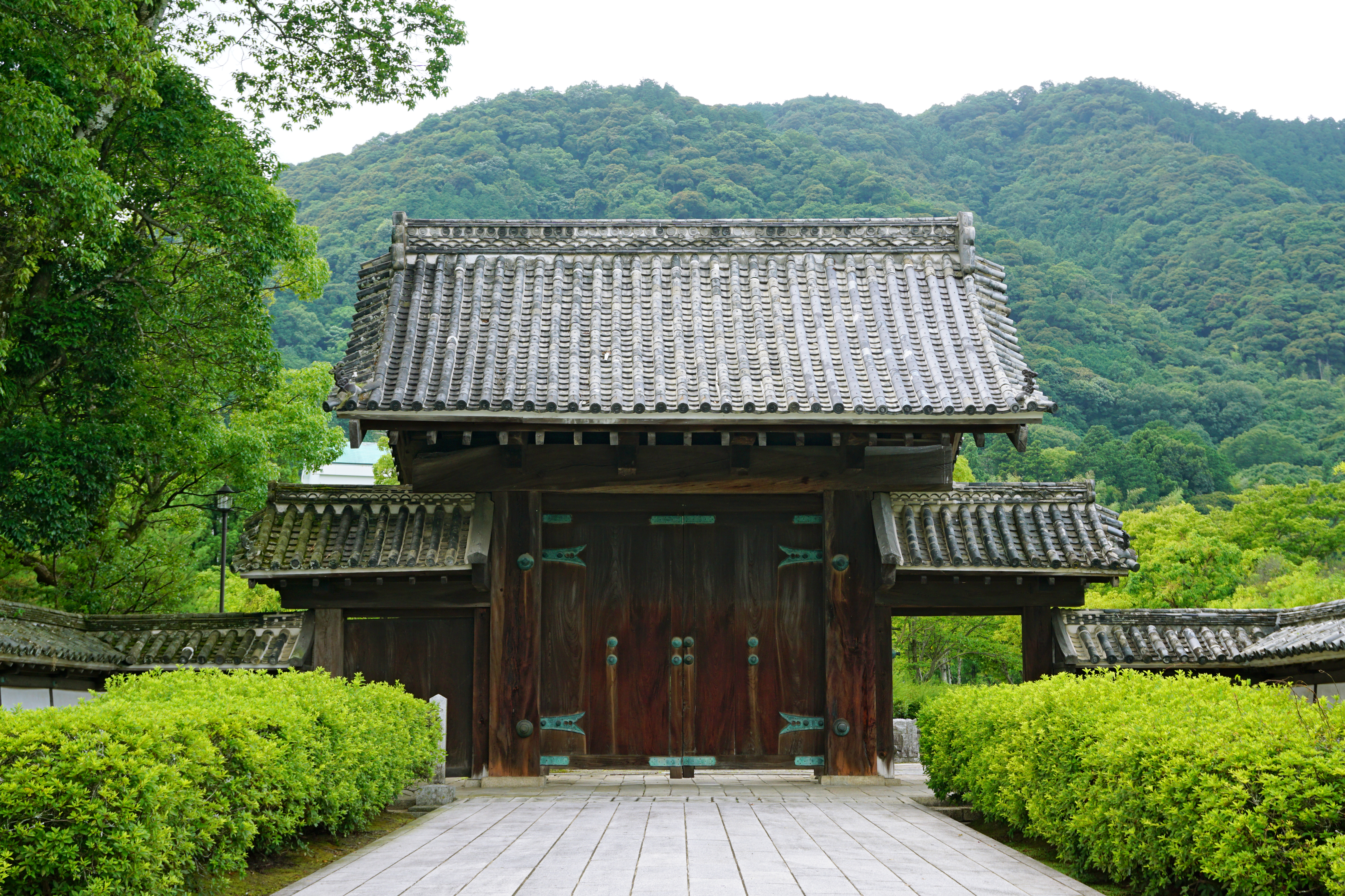 Yamaguchi Prefectural Government Building in Yamaguchi, Yamaguchi prefecture, Japan.